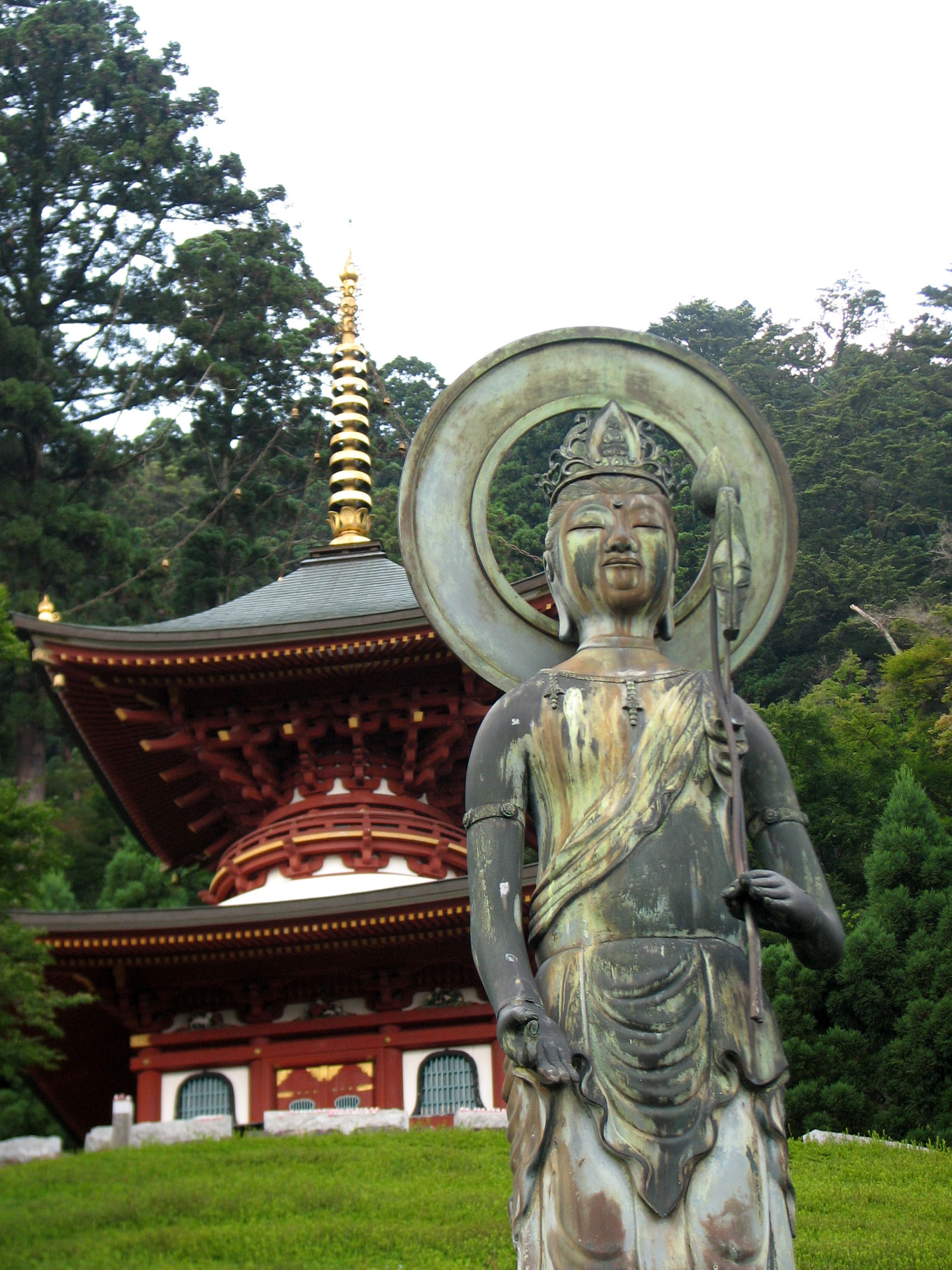 This is a Kannon statue dedicated to the souls of the unborn dead.